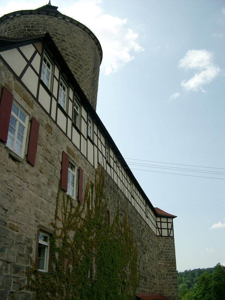 Burg Reichenberg, north-eastern aspect